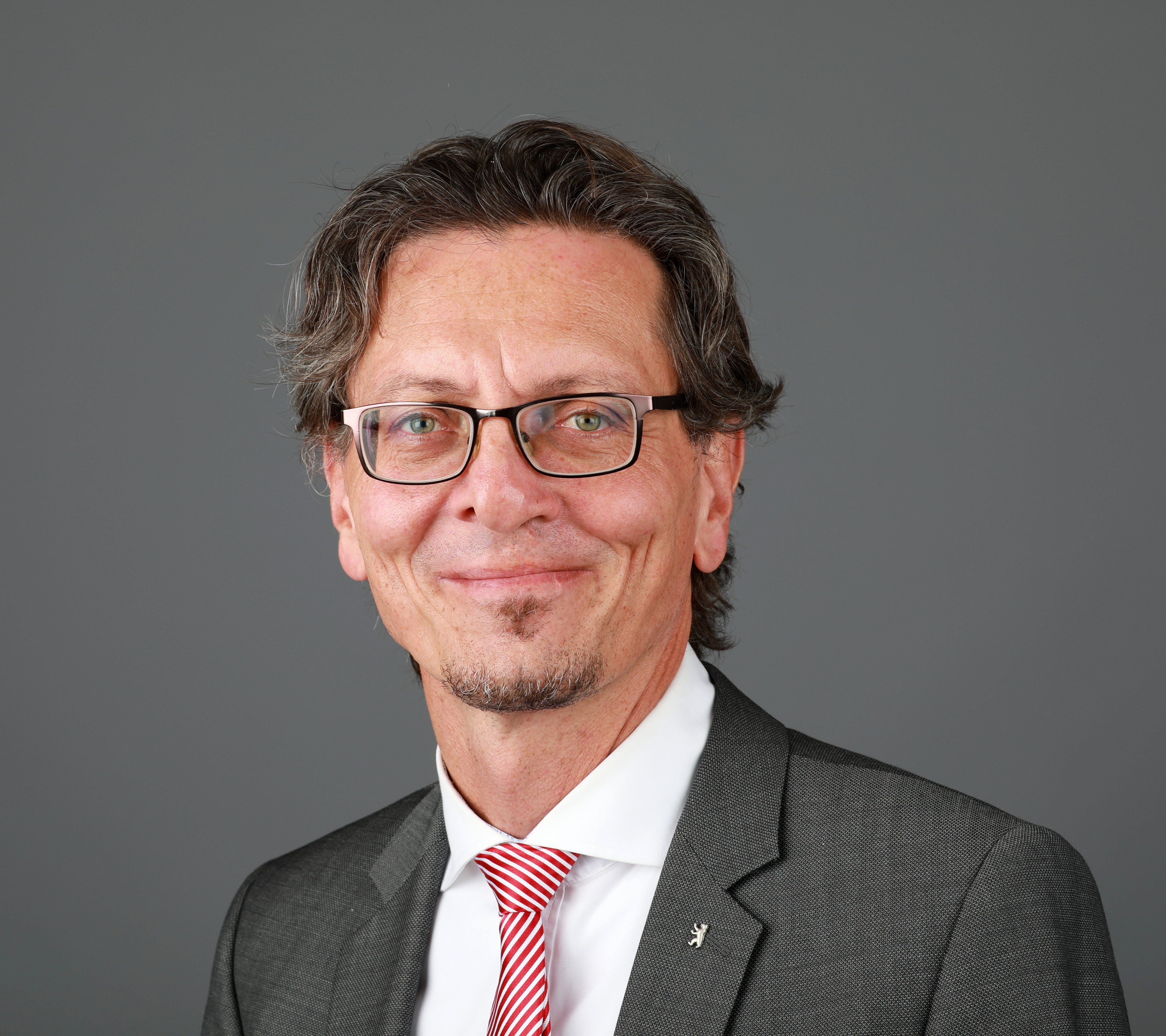 Christian Gaebler (SPD)